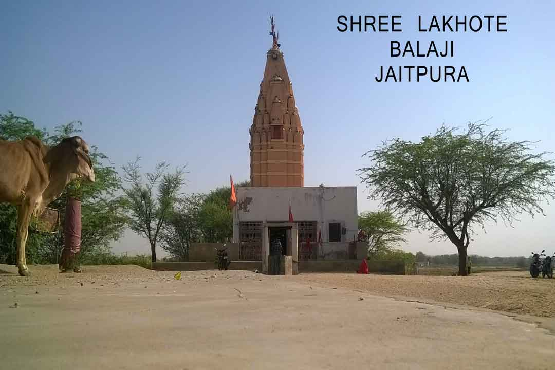 Image showing Lakhote Balaji which is situated in Jaitpura Village in Phulera Tehsil.